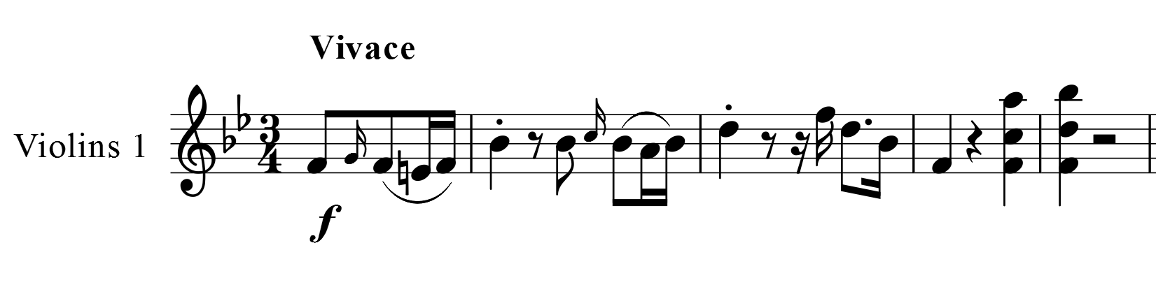 Joseph Haydn, Symphony No. 51, first movement, bar 1-4